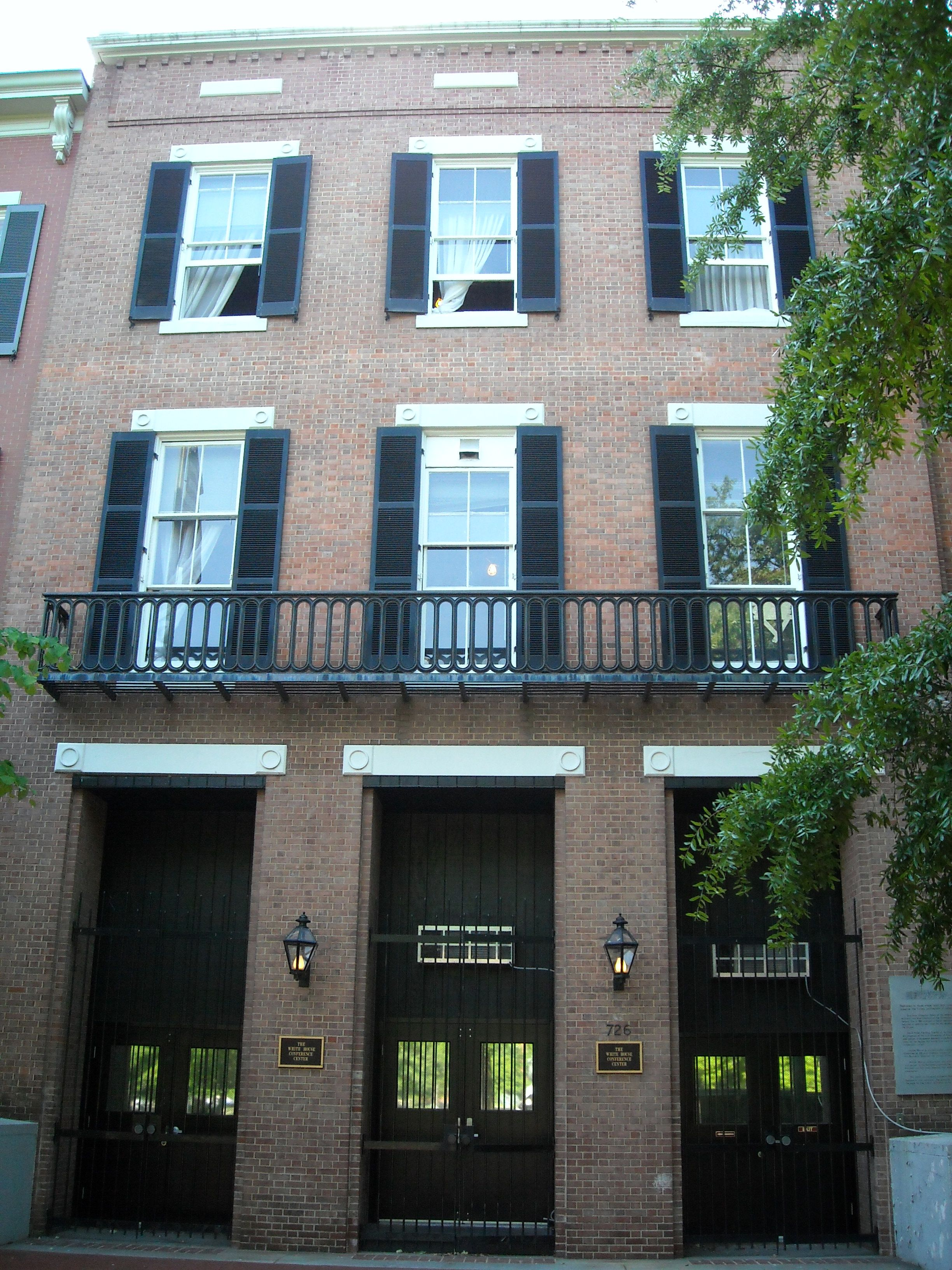 The White House Conference Center located at 726 Jackson Place, NW in Lafayette Square, Washington, D.C.